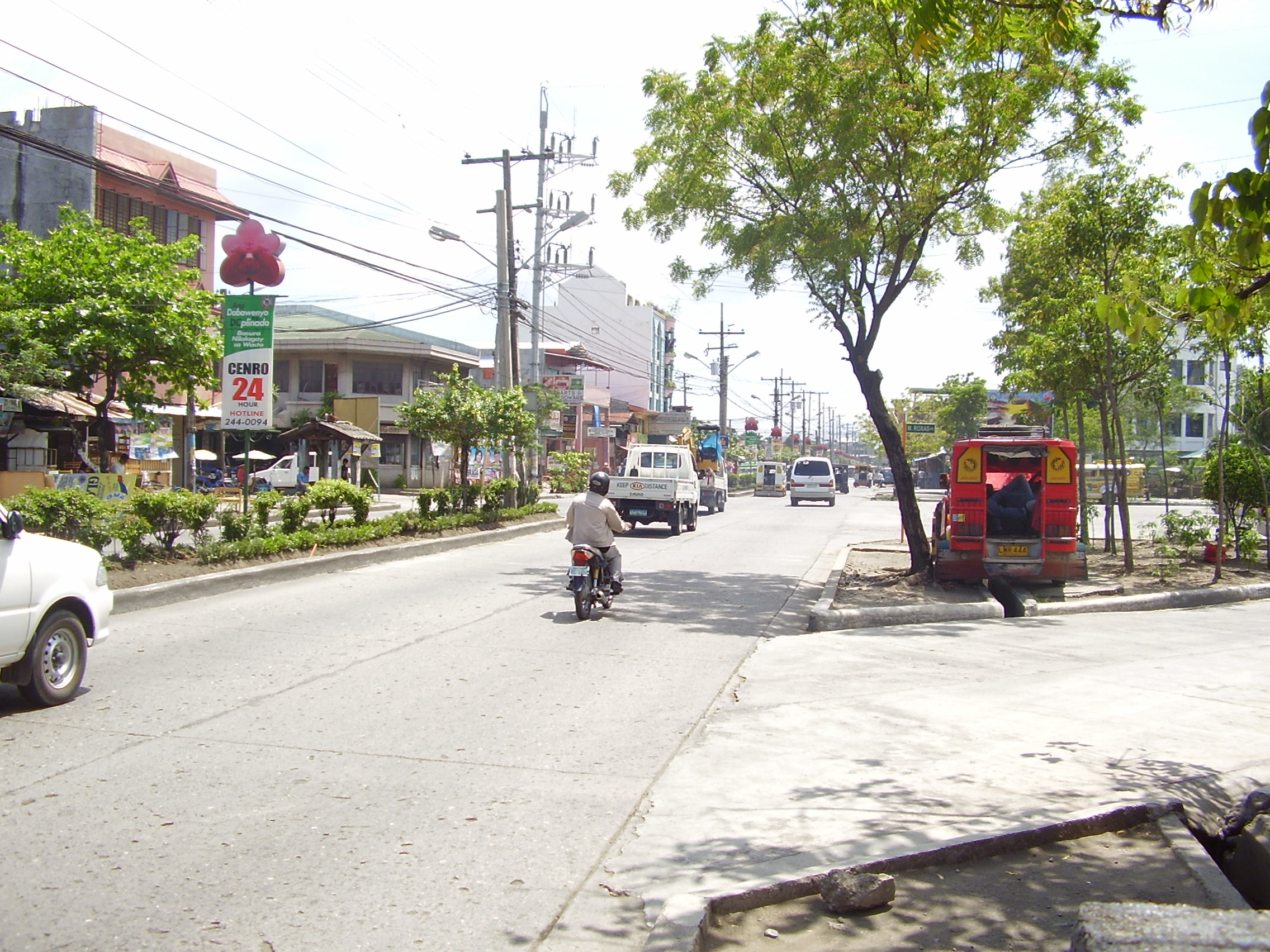 view on Quezon Blvd